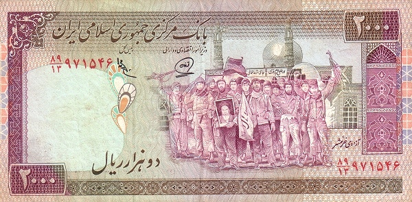 2000 IRR banknote (1982 issue)